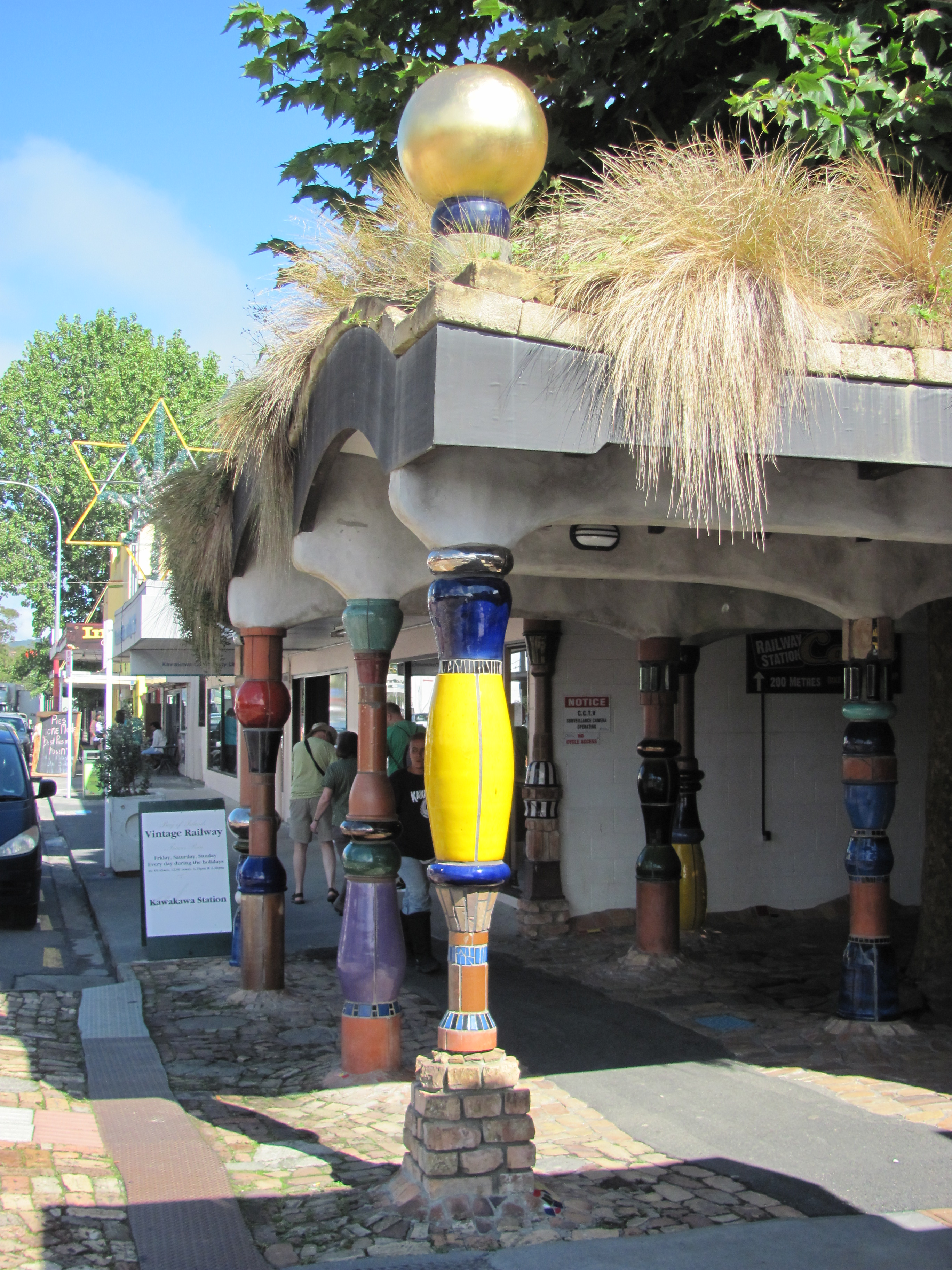 Hundertwasser-Toilets Kawakawa, street entrance